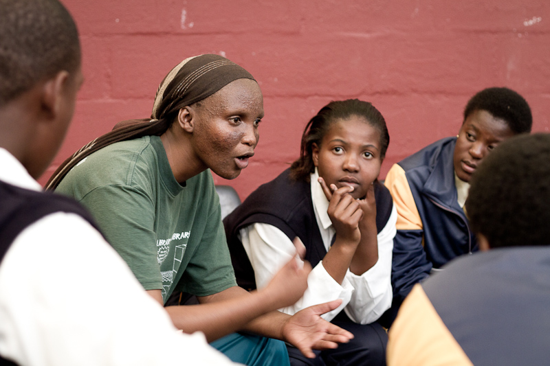 Yoliswa Dwane speaking with Equalisers - young members for Equal Education